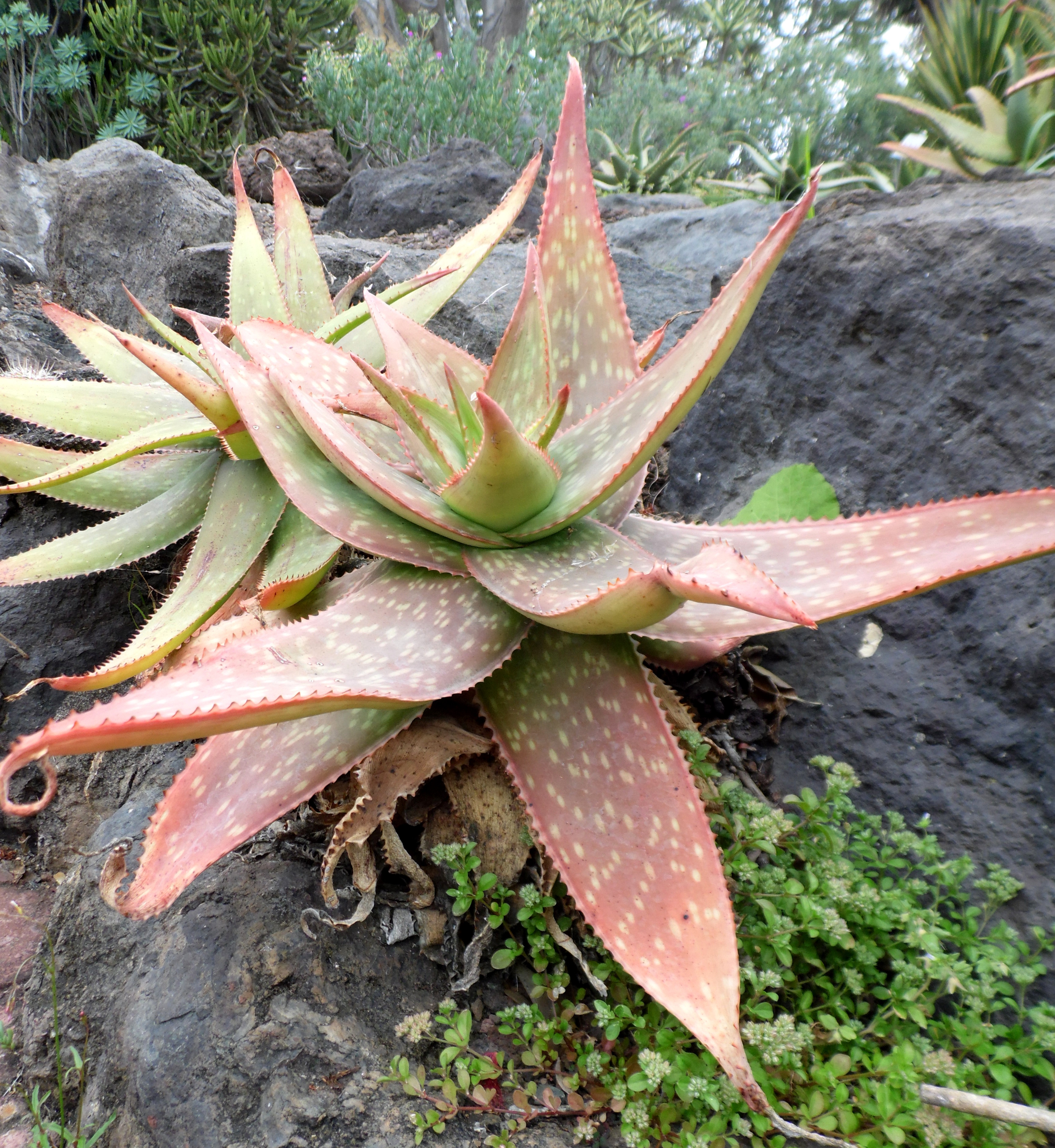 Aloe umfoloziensis in Jardín Botánico Canario Viera y Clavijo